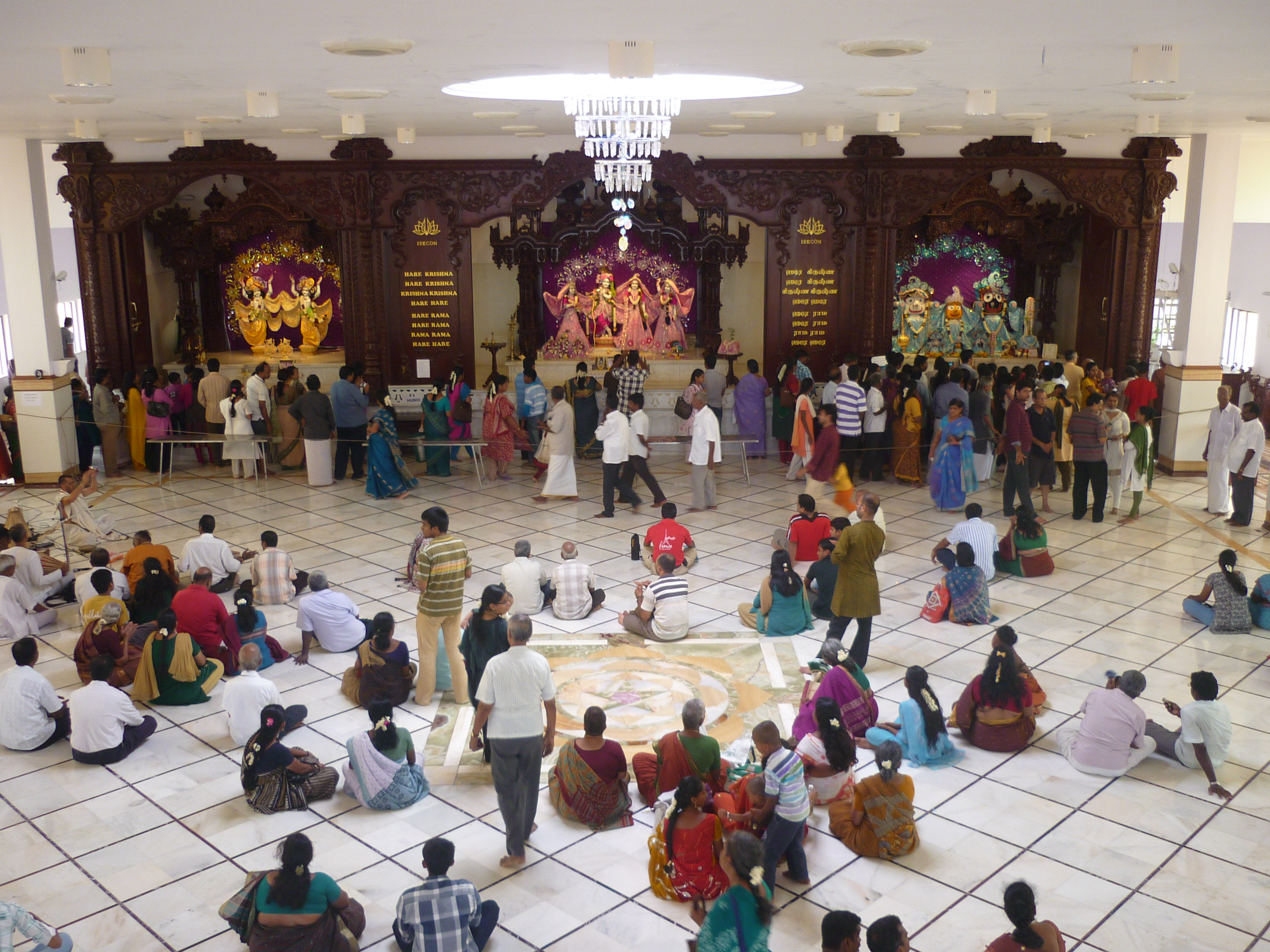 ISKCON Temple Chennai, Central prayer hall, taken on 1-May-2012